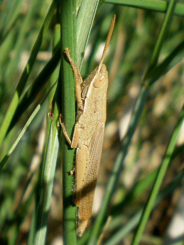 Near Higuera de Calatrava, Jaén, Spain.